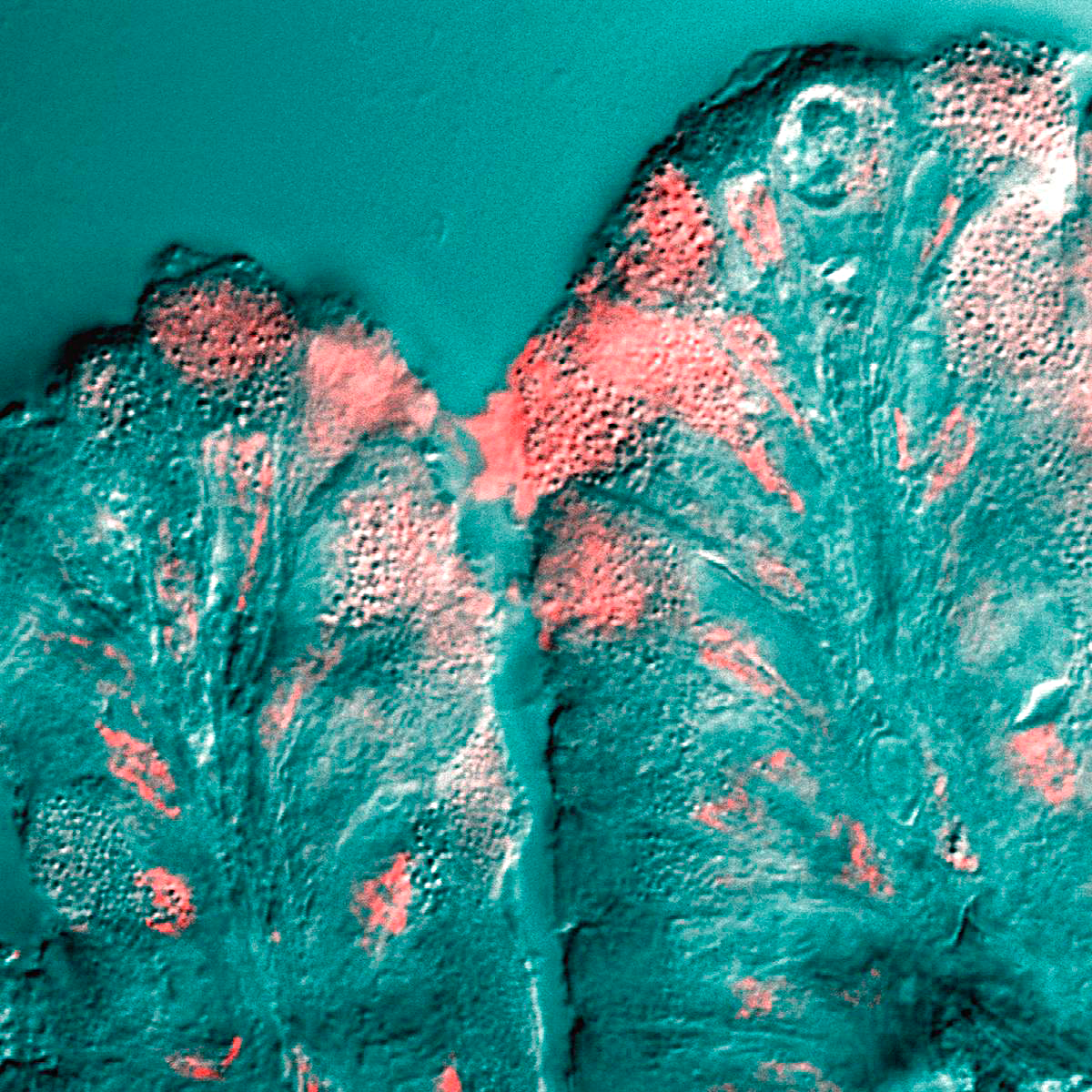 A surface mucous cell bordering on the stomach lumen secretes mucus (pink stain).